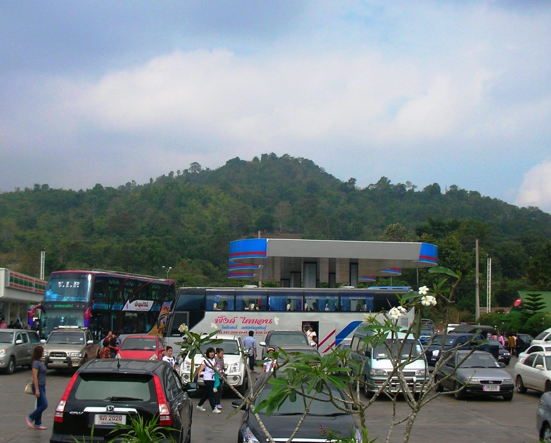 Phu Ruea, a 1365 m high mountain in Loei Province, Thailand. Southern side of the summit as seen from Highway 203